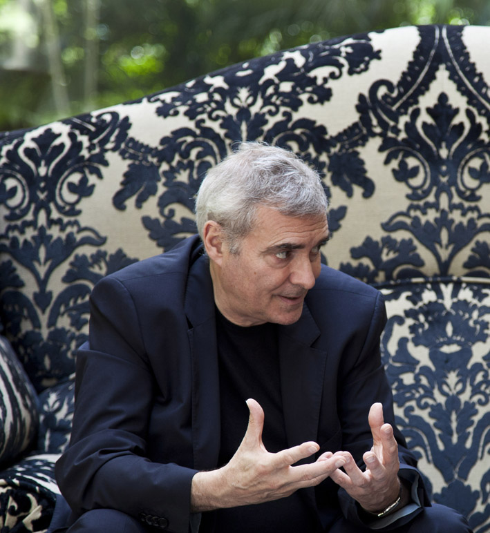 This photo is taken during the interview of Domus China with Dominique Perrault. Material courtesy of Domus China.